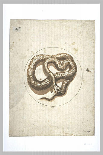 Drawing of a coiled up serpent in the Louvre